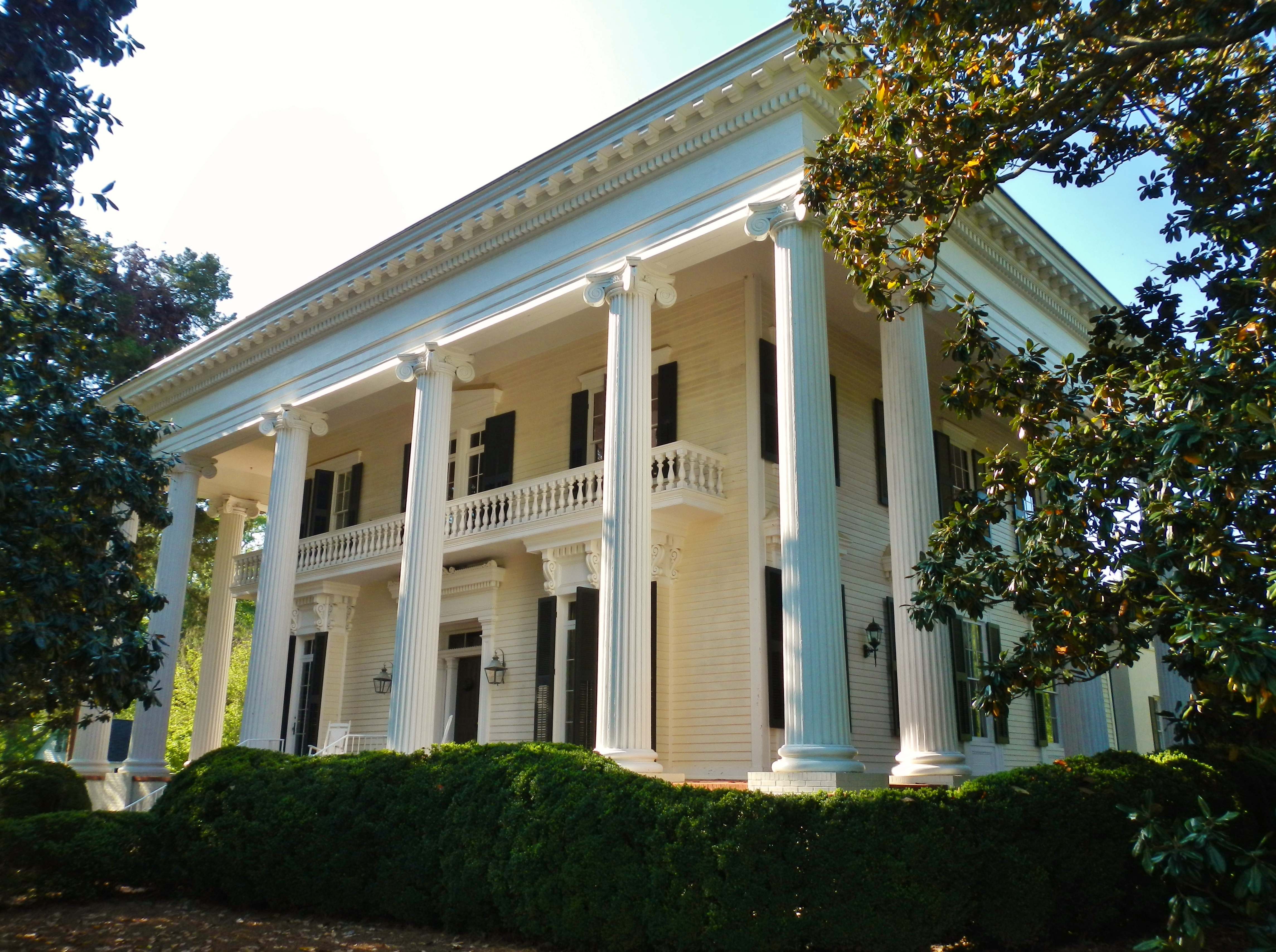 This is a photograph of the Bellevue mansion in LaGrange, Georgia. It was added to NRHP on November 7, 1972.